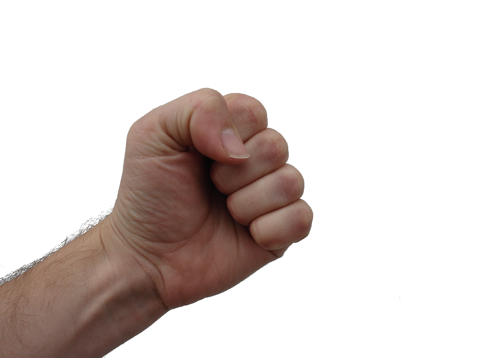 Clenched human fist